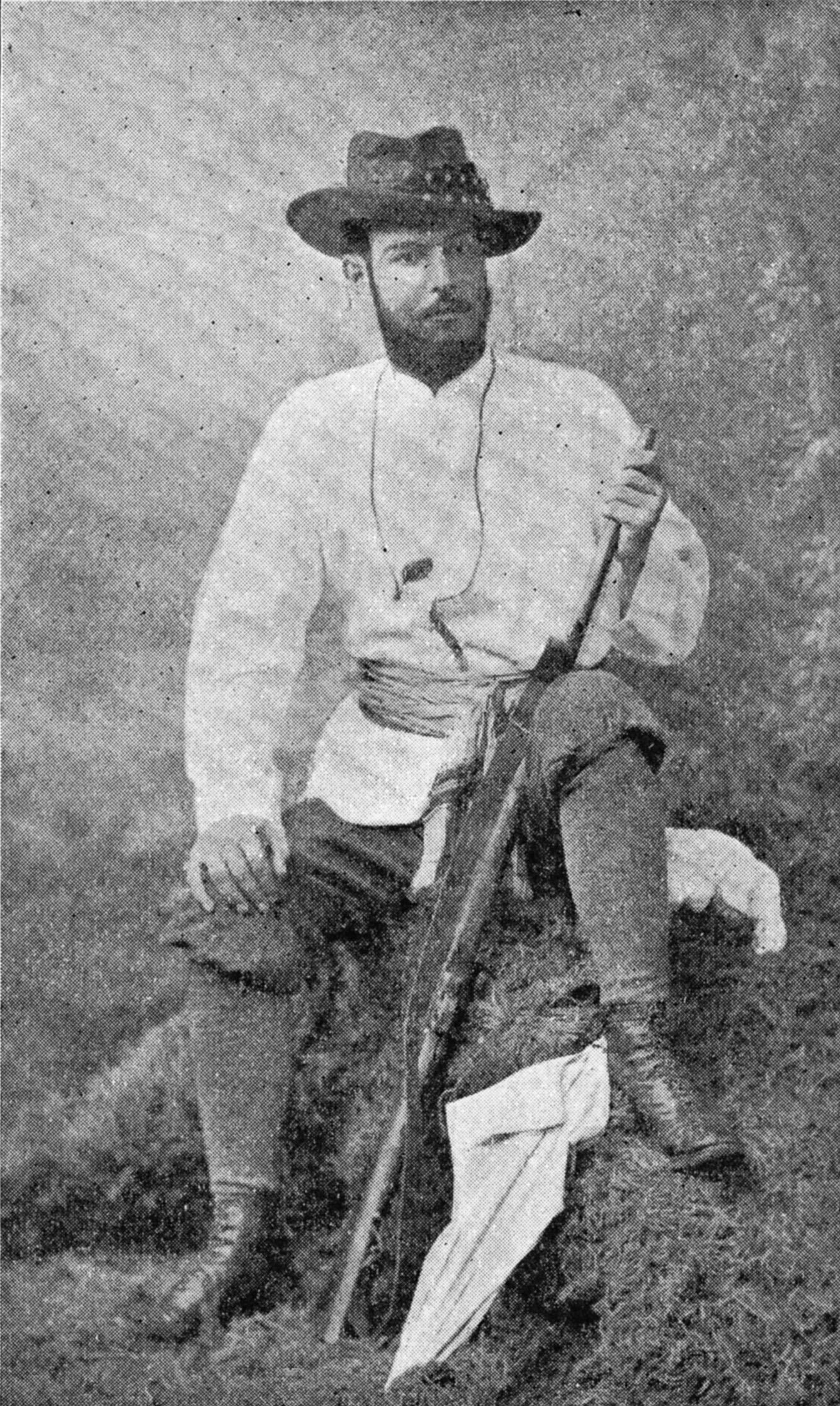 H.P.N. Muller as young businessman on expedition in East Africa (1882-1883)